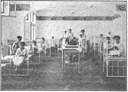 Staff and patients in the surgical ward of the Anglo-Serbian Children's Hospital, Belgrade, Serbia, 1921